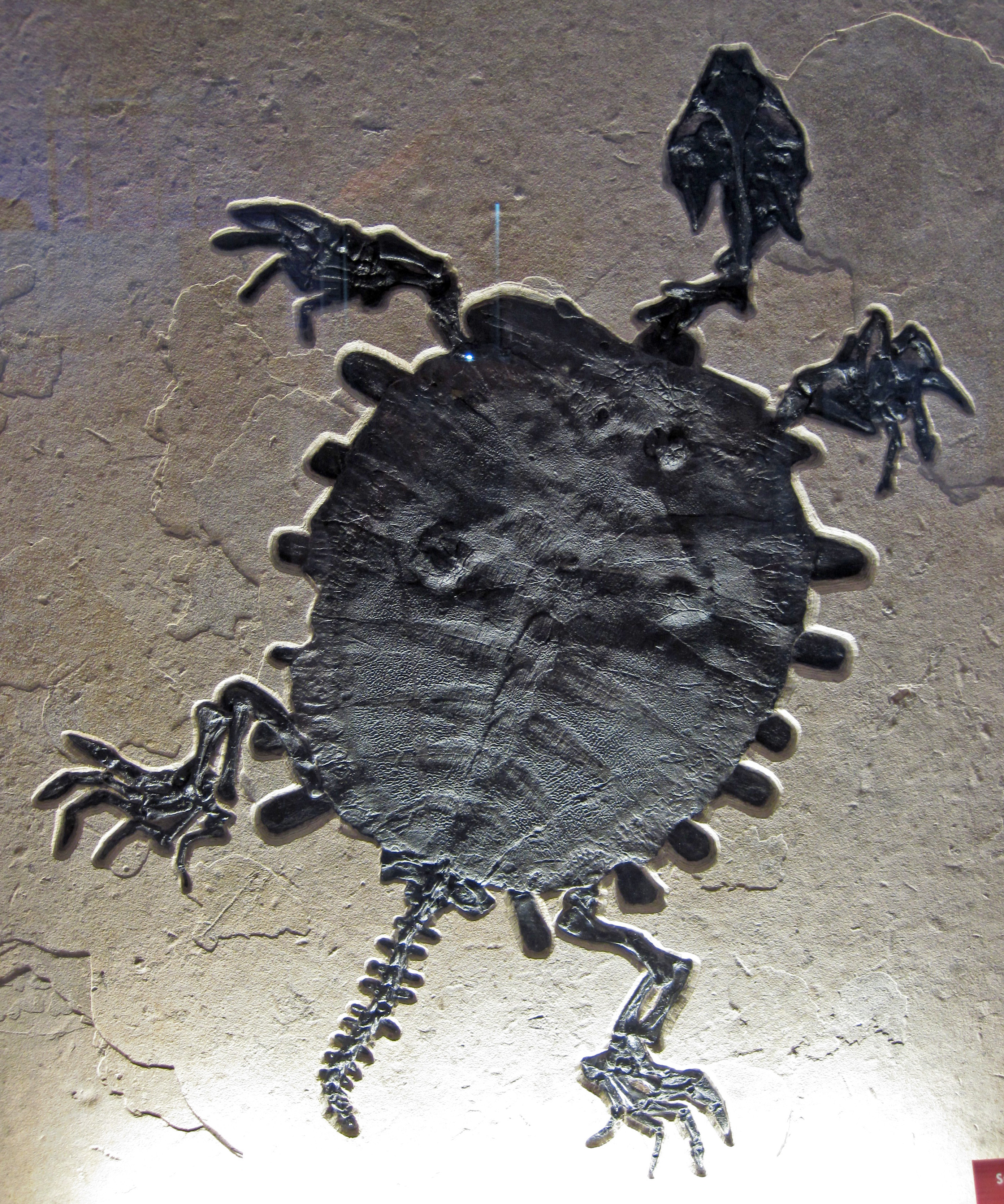 Axestemys byssina fossil soft-shelled turtle in lacustrine marlstone from the Eocene of Wyoming, USA (public display, Lake Superior Aquarium, Duluth, Minnesota, USA). The Green River Formation of Utah-Colorado-Wyoming is famous for having vast oil shale deposits and for having exquisitely-preserved fossils. Fossil Butte National Monument in southwestern Wyoming preserves and displays some of these high-quality fossils. Leaves and fish are the most common large fossils in the Fossil Lake Basin of the Green River Fm. This remarkable, complete fossil soft-shelled turtle is about 1.5 meters long. Classification: Animalia, Chordata, Vertebrata, Chelonii/Testudines, Trionychidae Stratigraphy: Fossil Butte Member, Green River Formation, upper Wasatchian Stage (Wa4)/Ypresian Stage/Lostcabinian, Lower Eocene Locality: Fossil Lake Basin, southwestern Wyoming, USA